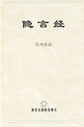 book cover of Chinese version of the Hidden Words